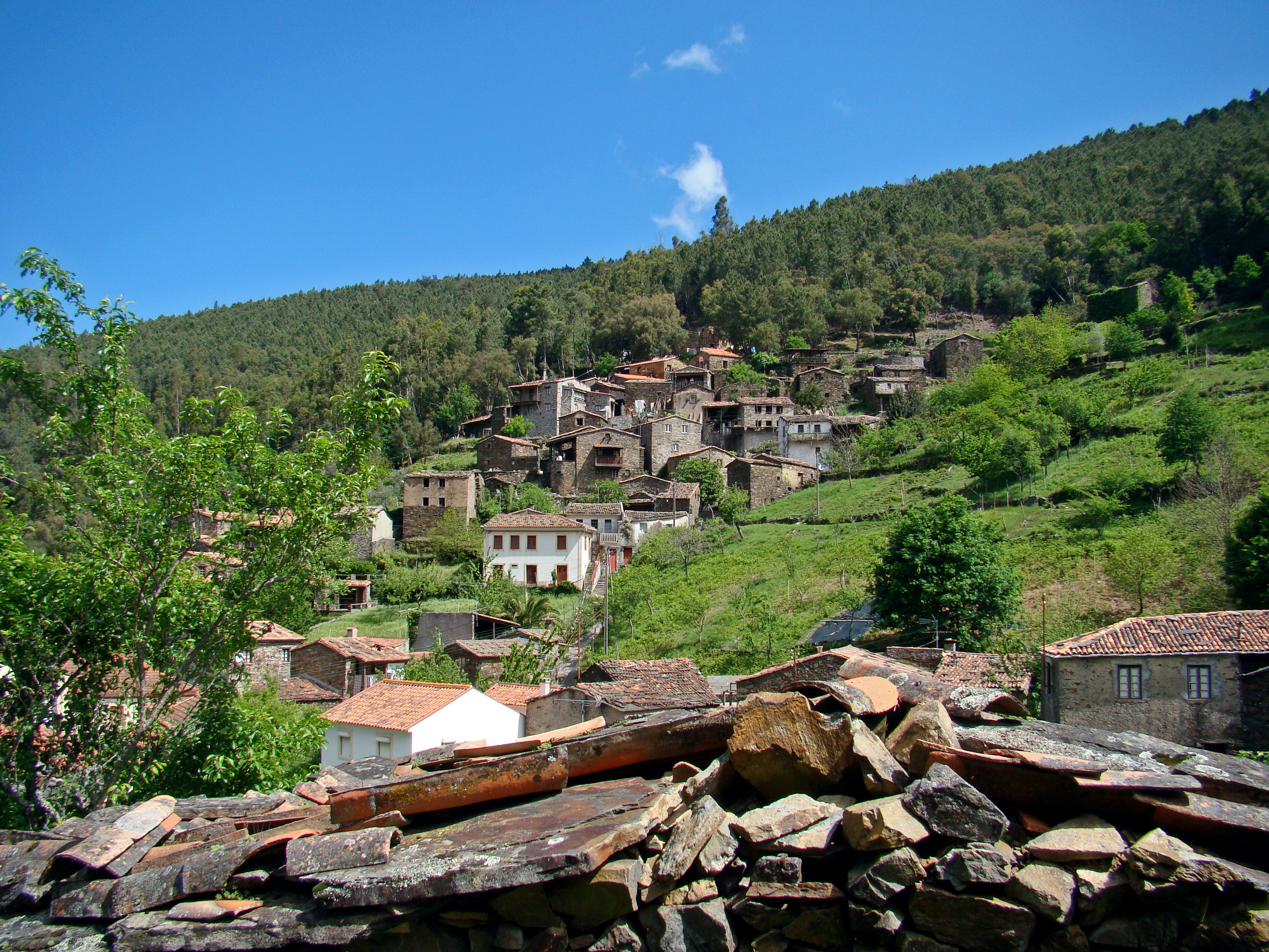 This file was uploaded for Wiki Loves Monuments in Portugal with the unique identifier 97005914.